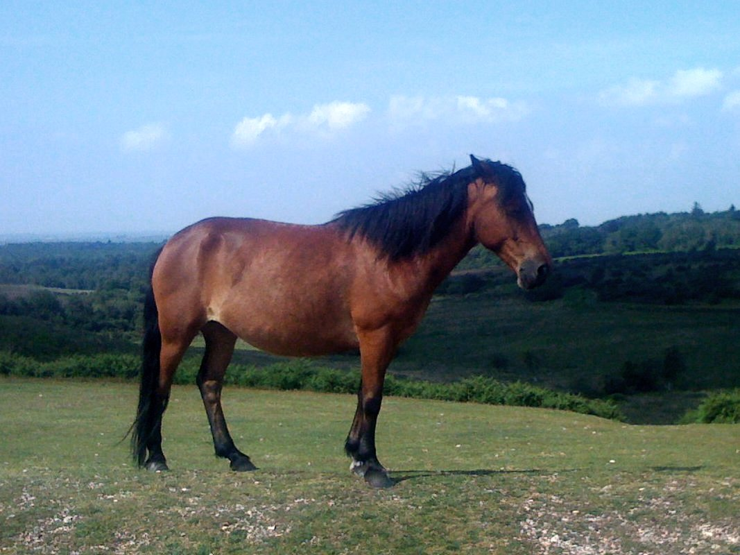 A New Forest pony at Picket Post near Burley, New Forest